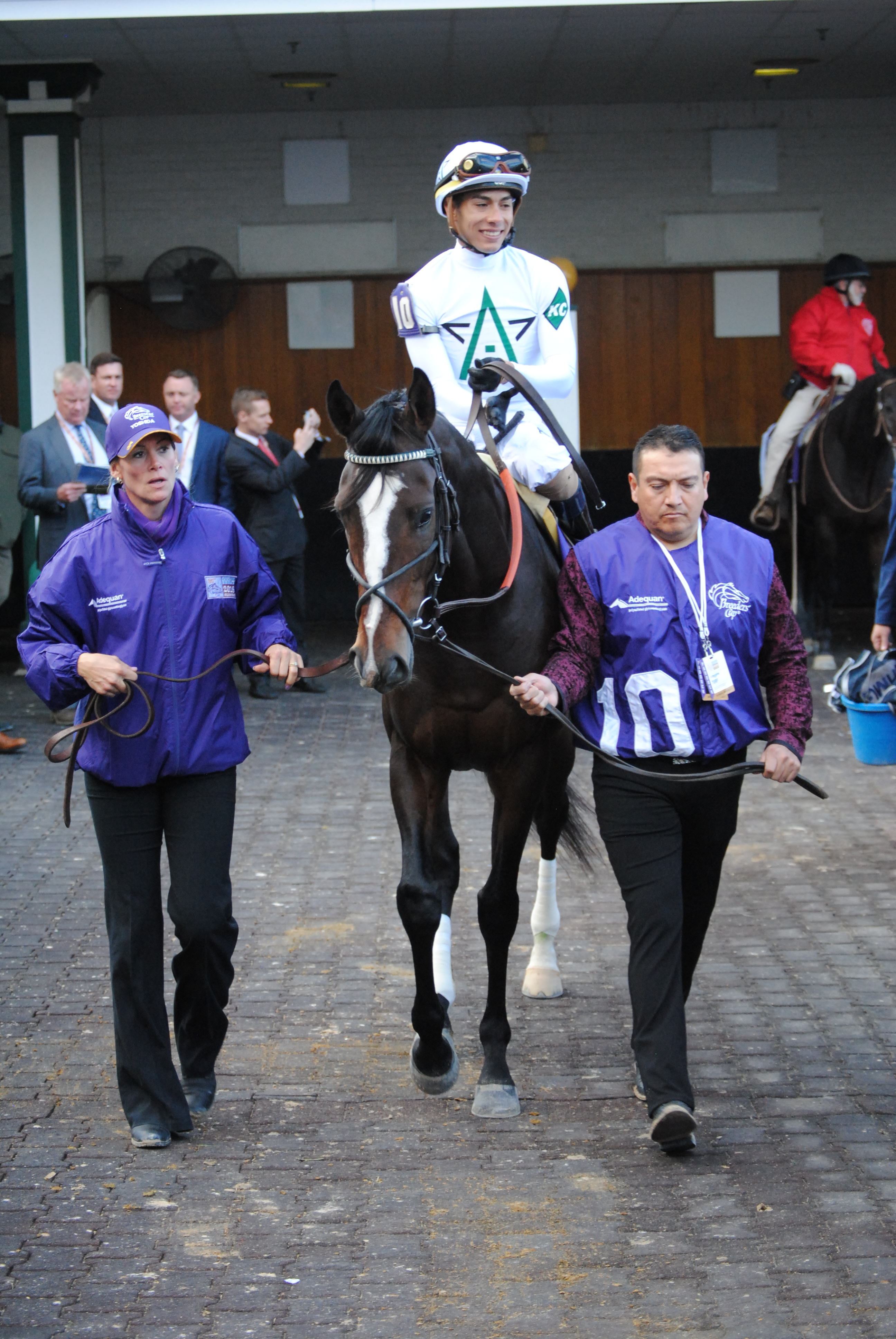 Yoshida and Jose Oriz at the 2018 Breeders' Cup